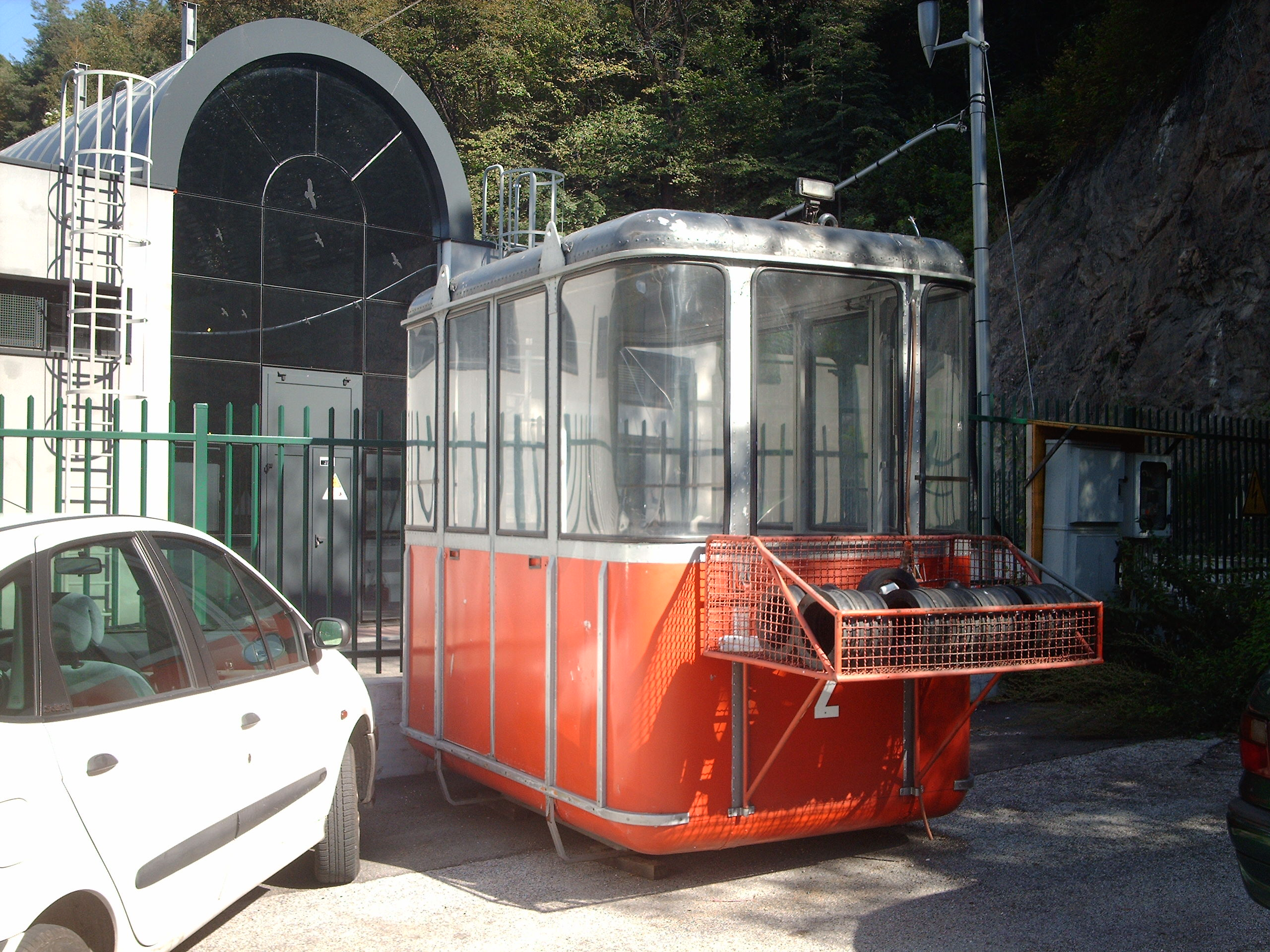 Picture by Skafa